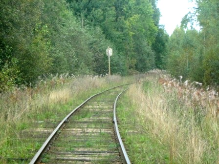 Railway Ovinishe - Vesyegonsk (Russia)